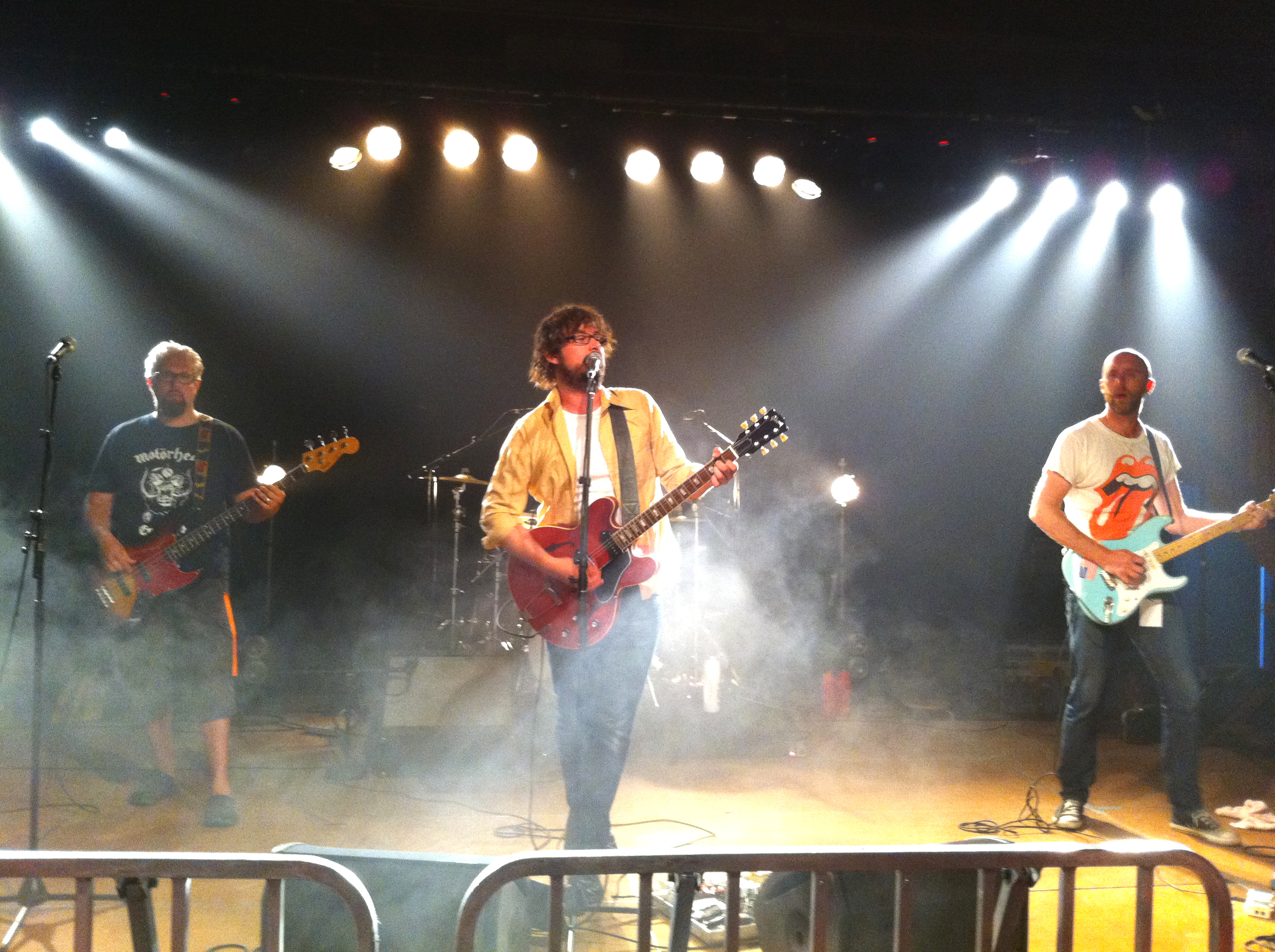 The band Garp on stage at Trästockfestivalen 2011 in Skellefteå (reunion concert).